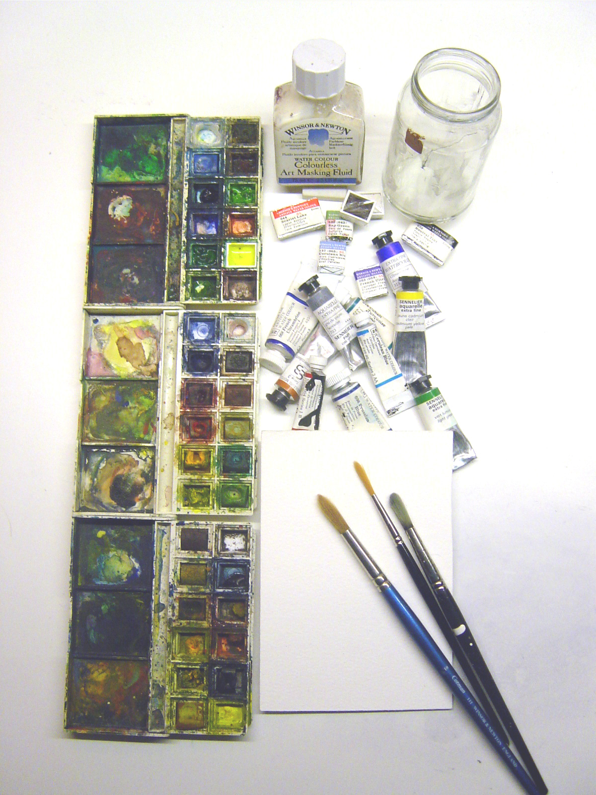 Painting materials for watercolor